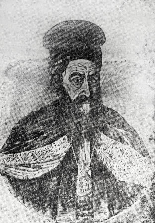 Dorotheos Proios (1765-1821): Greek scholar and priest